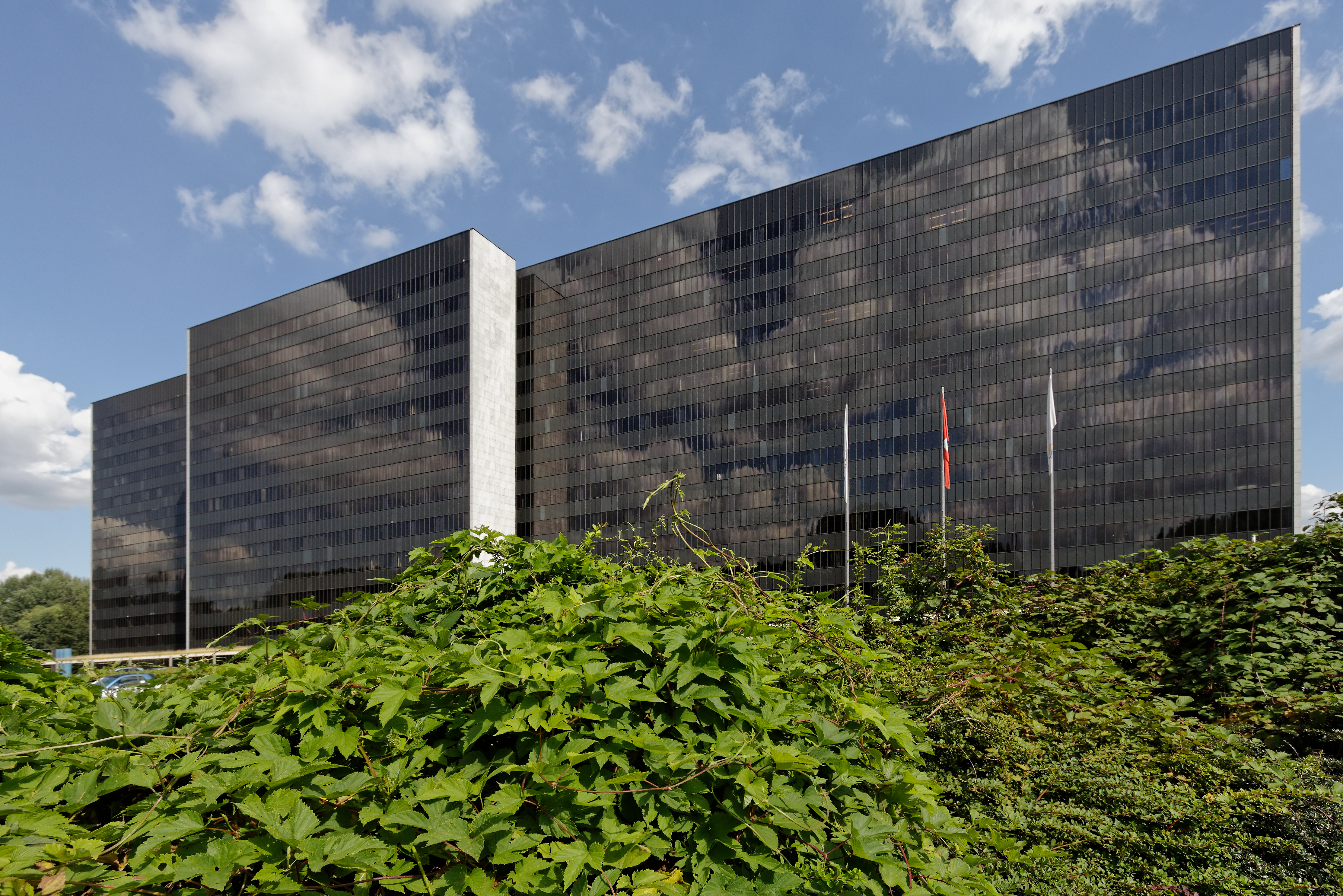 Hamburg-Winterhude, City Nord, office building Überseering 12, originally build for "Hamburgische Electricitätswerke", later used by "Vattenfall Europe"